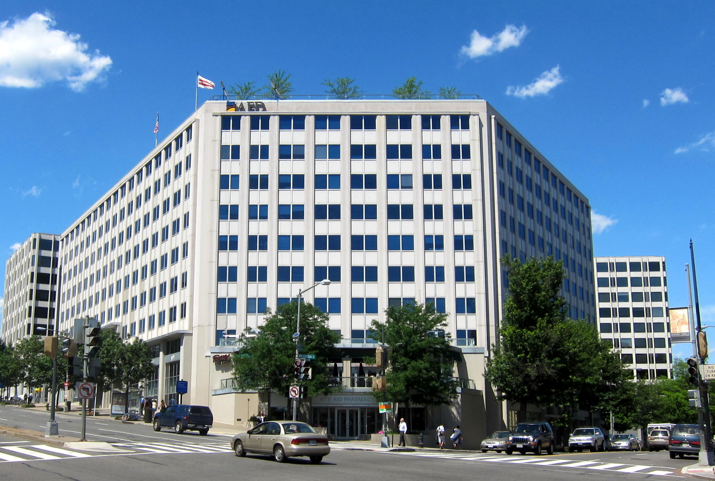 The Universal South Building located at 1825 Connecticut Avenue, N.W., in the Adams Morgan neighborhood of Washington, D.C. The modernist high-rise was built in 1959 to the designs of Leroy Werner and RTKL Associates. Tenants include Academy for Educational Development, Africa Society of the National Summit on Africa, Alice Ferguson Foundation, Buca di Beppo, Center for Auto Safety, Center for Independent Media, Gymr LLC, National Dissemination Center for Children with Disabilities, Wnuk Spurlock Architecture, and Women Thrive Worldwide. It formerly housed the Civil Aeronautics Board headquarters.